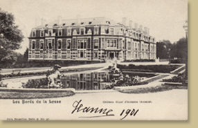 Annexe to the Royal Castle at Ardenne (Belgium). Built in 1898 (arch. Alban Chambon), destroyed in 1971